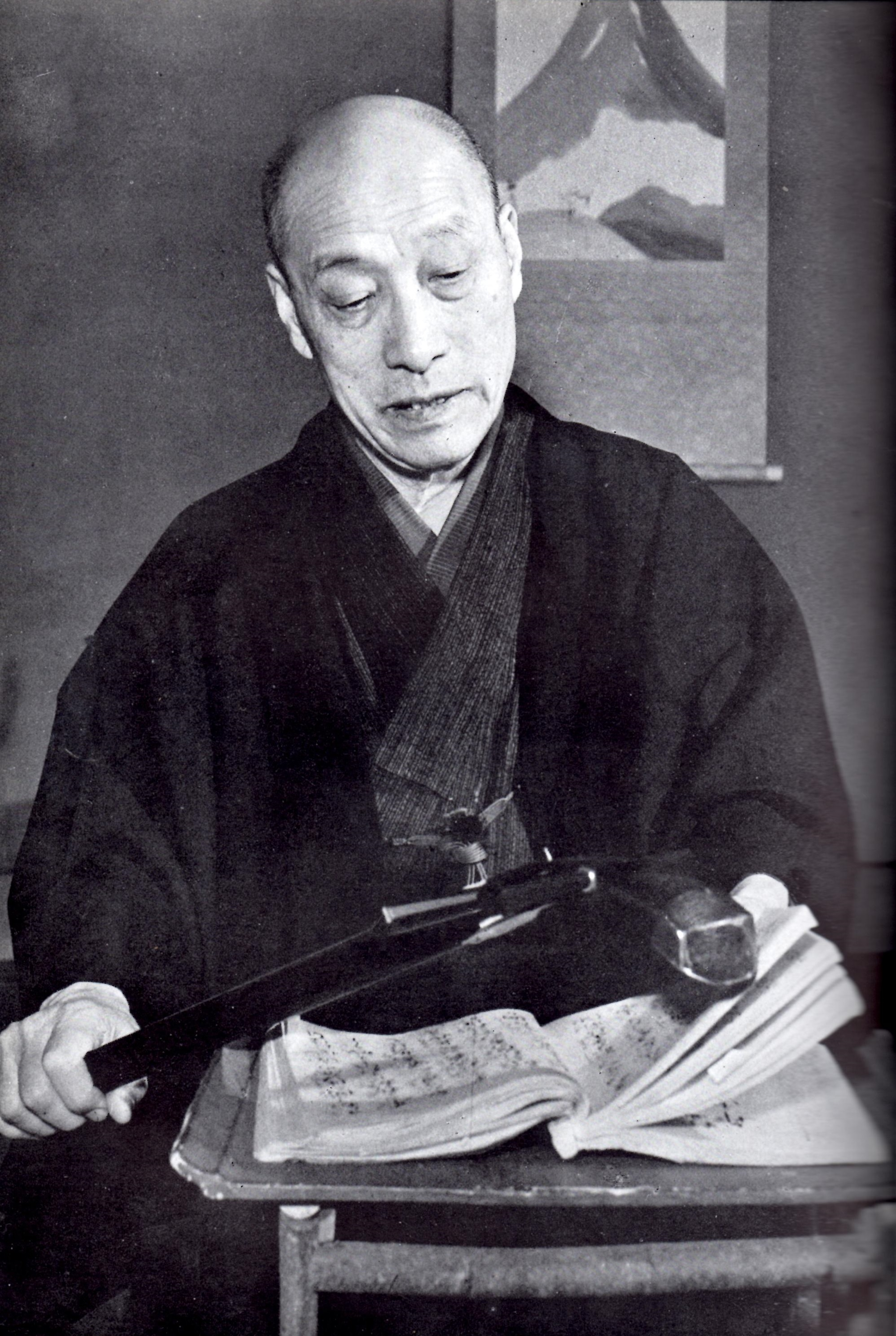 Japanese lead singer in a 'nagauta' chorus, Yoshizumi, Kosaburō Ⅳ (1876-1972)